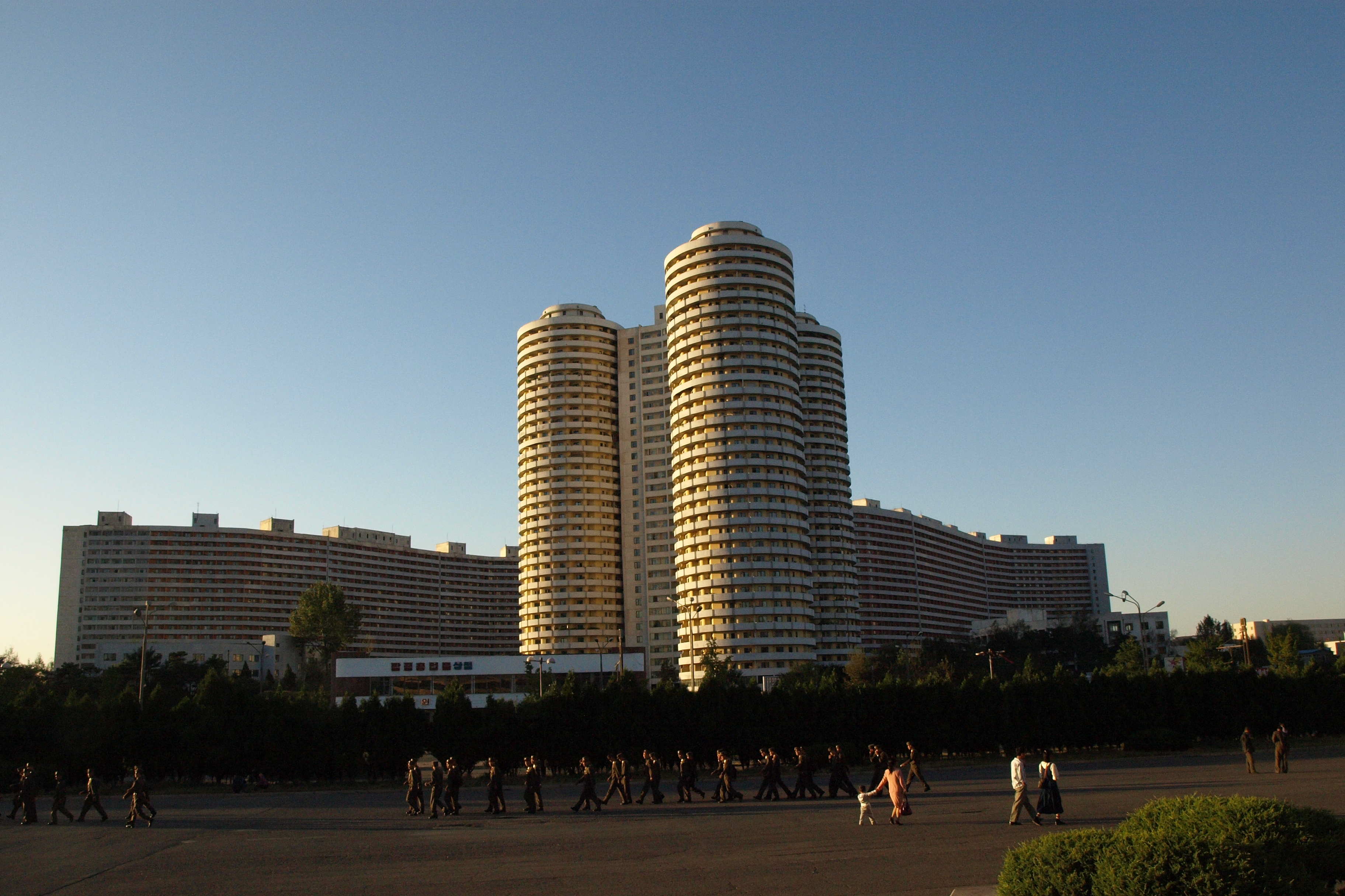 Apartments opposite Pyongyang Circus. Crowd in foreground are leaving after seeing the show.